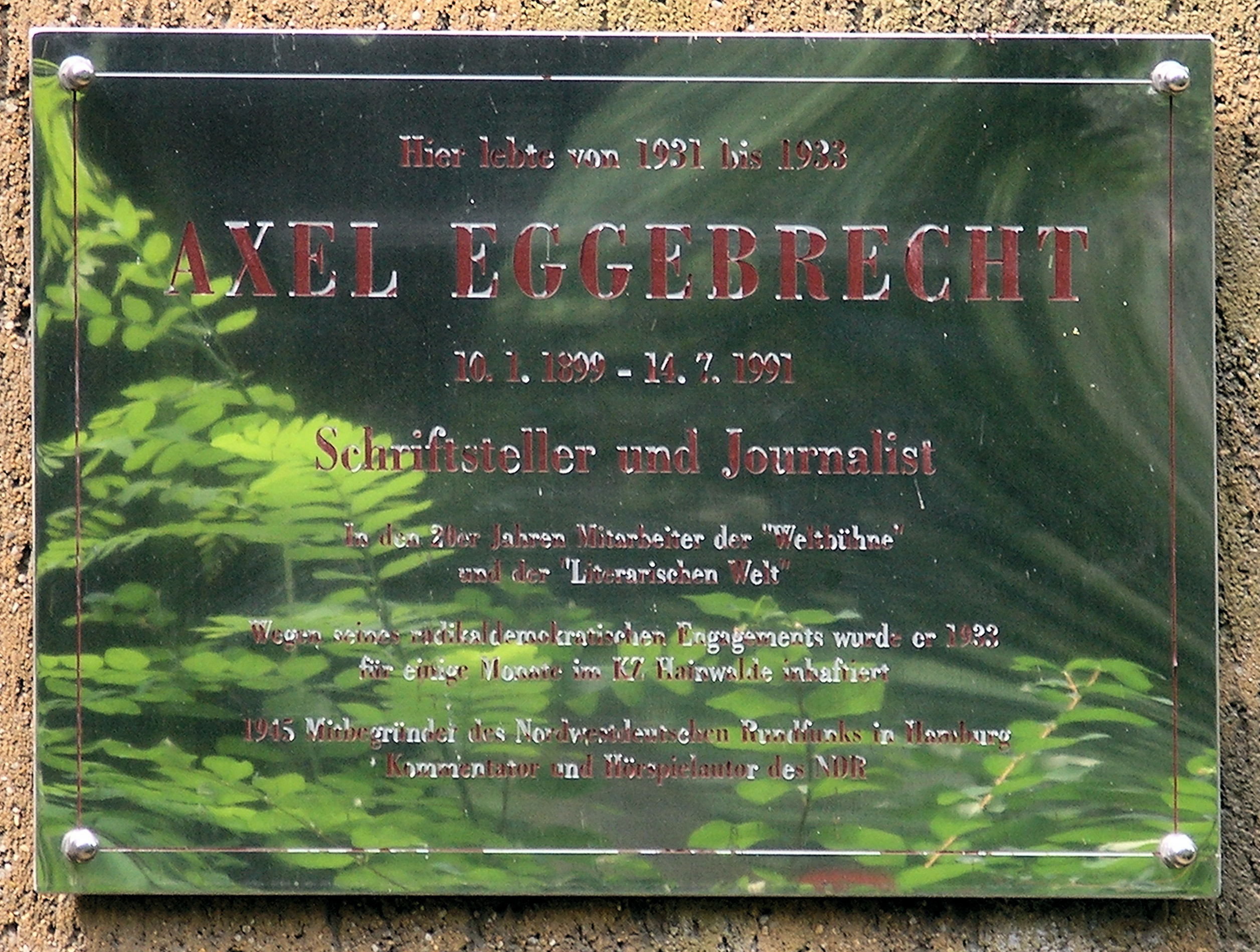 Memorial plaque, Axel Eggebrecht, Bonner Straße 12, Berlin-Wilmersdorf, Germany Koordinate:52°28′4″N 13°18′49″E / 52.46778°N 13.31361°E